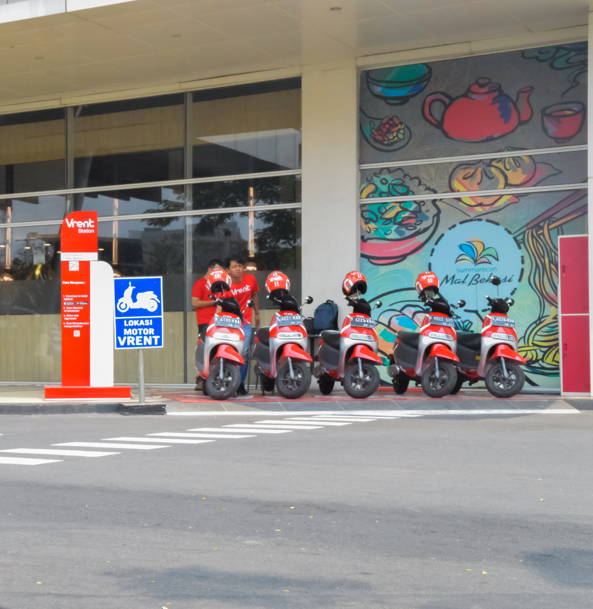 Salah satu Station Vrent di Bekasi